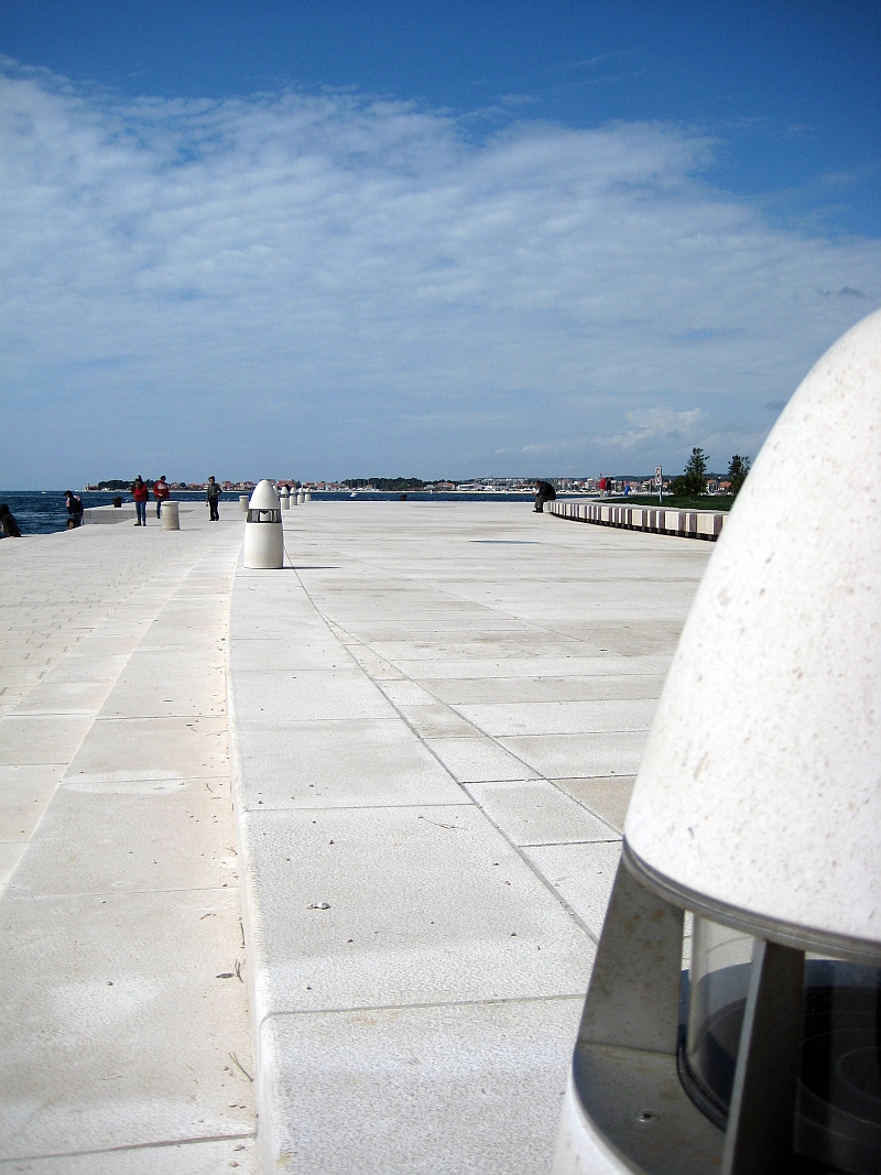 Hello sunshine, Zadar.